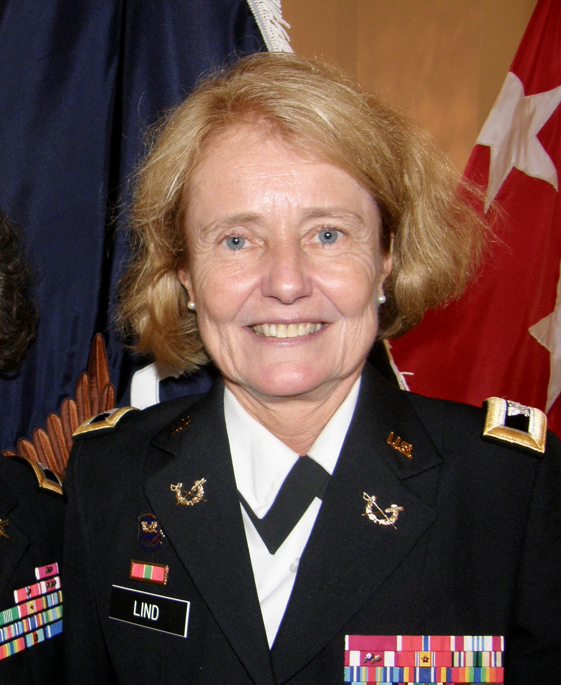 Two colonels, US Army